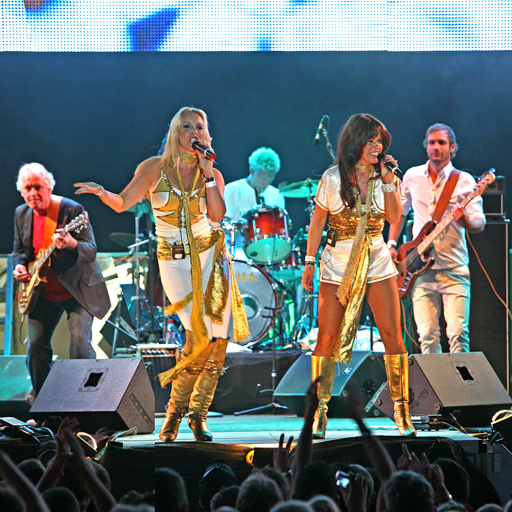 ABBA 2008,7,30 Reprint from Flickr Arrival, a revival Band covering ABBA at the LGBT event Europride 2008 in Stockholm. Original ABBA backing band member Finn Sjoberg can be seen far left (in red shirt)